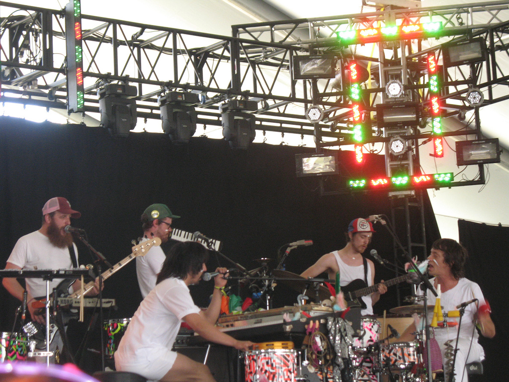 Man Man was a great fucking way to kick off Day 2. These guys were full of intensity...especially the lead singer who runs around causing mayhem across the stage.